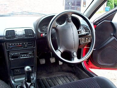 Dashboard of a UK specification 1995 Maxda MX-3.